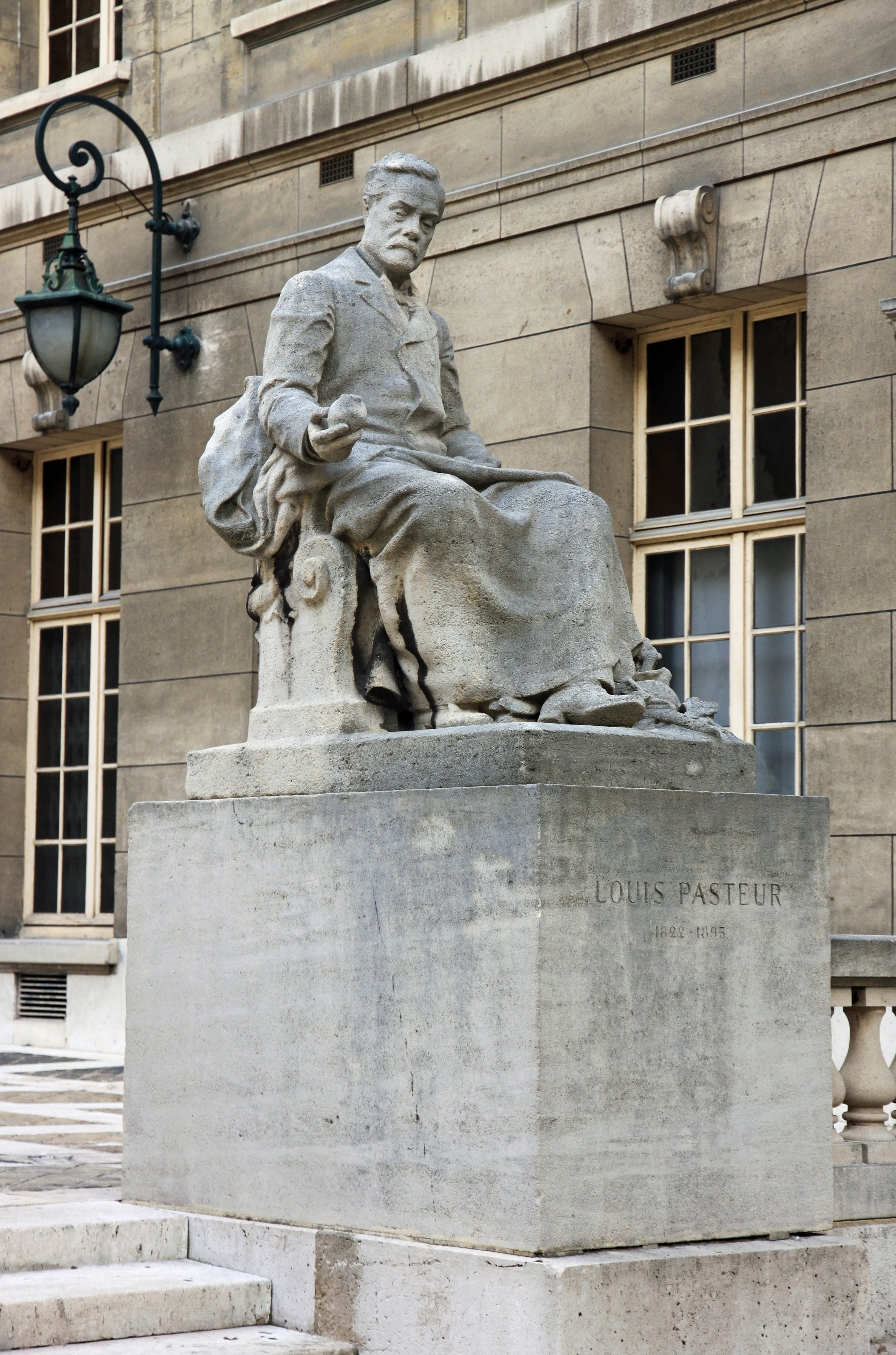 Statue of Louis Pasteur (1822-1895) by Jean-Baptiste Hugues (1849-1930), 1899-1900, cour d'honneur of the Sorbonne, Paris. Statue de Louis Pasteur (1822-1895) par Jean-Baptiste Hugues (1849-1930), 1899-1900, cour d'honneur de la Sorbonne, Paris.